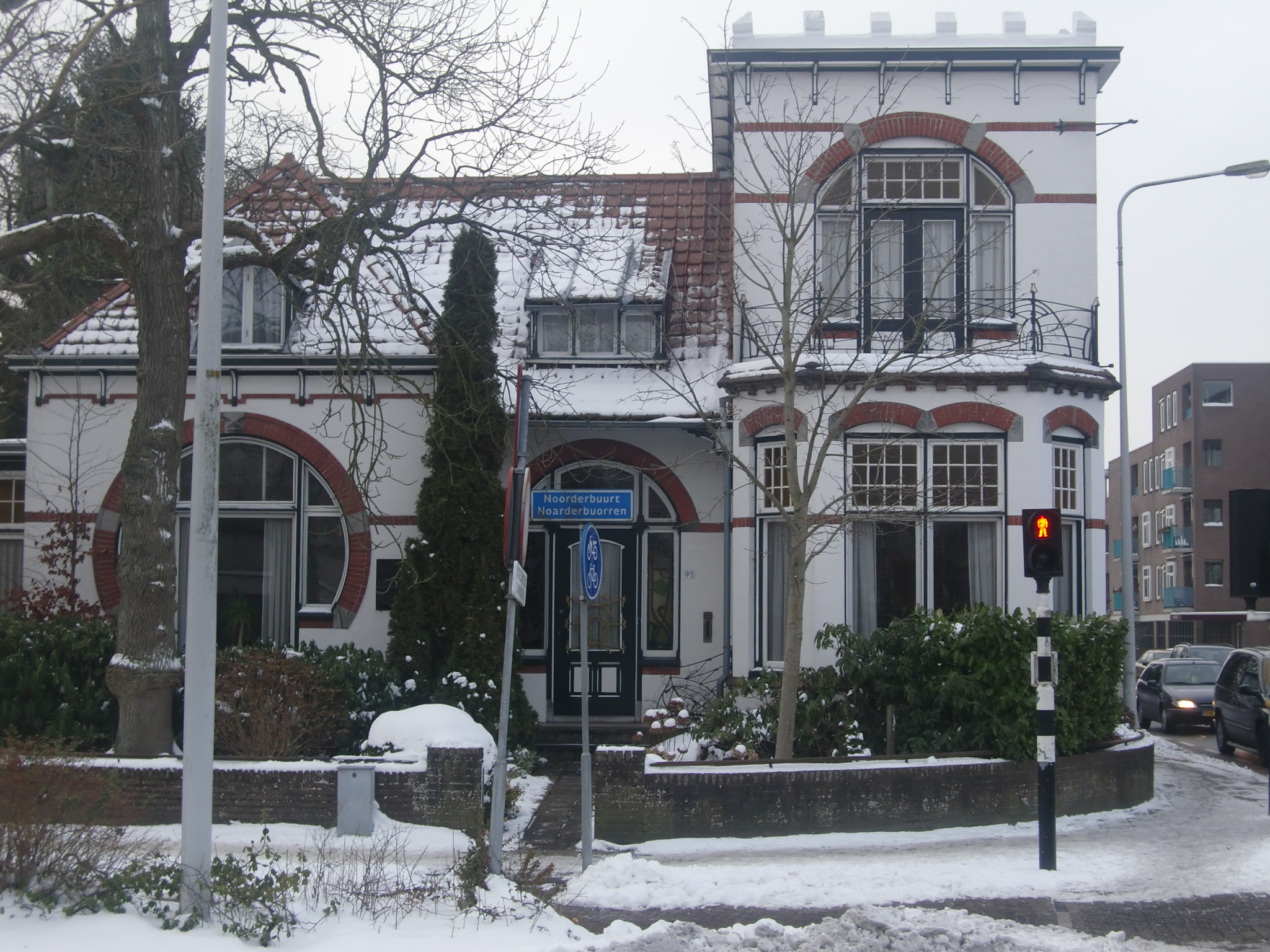 House (1906) in the Dutch village of Drachten.